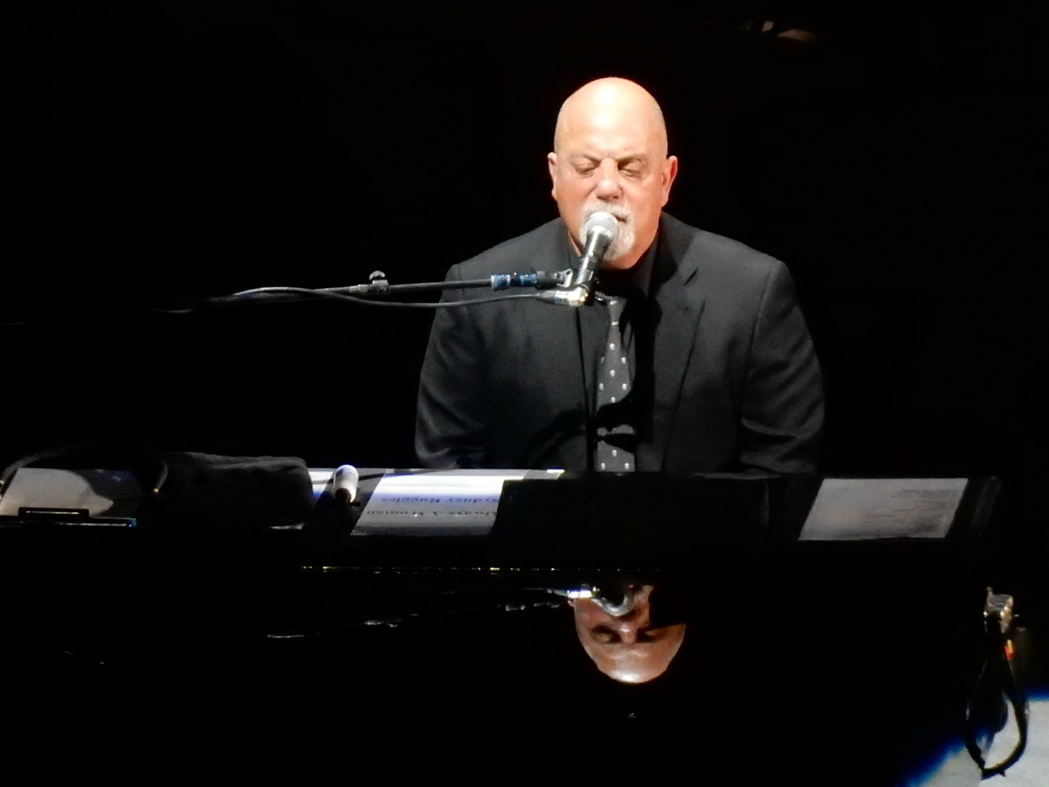 Billy Joel performing at Madison Square Garden, April 15, 2016.